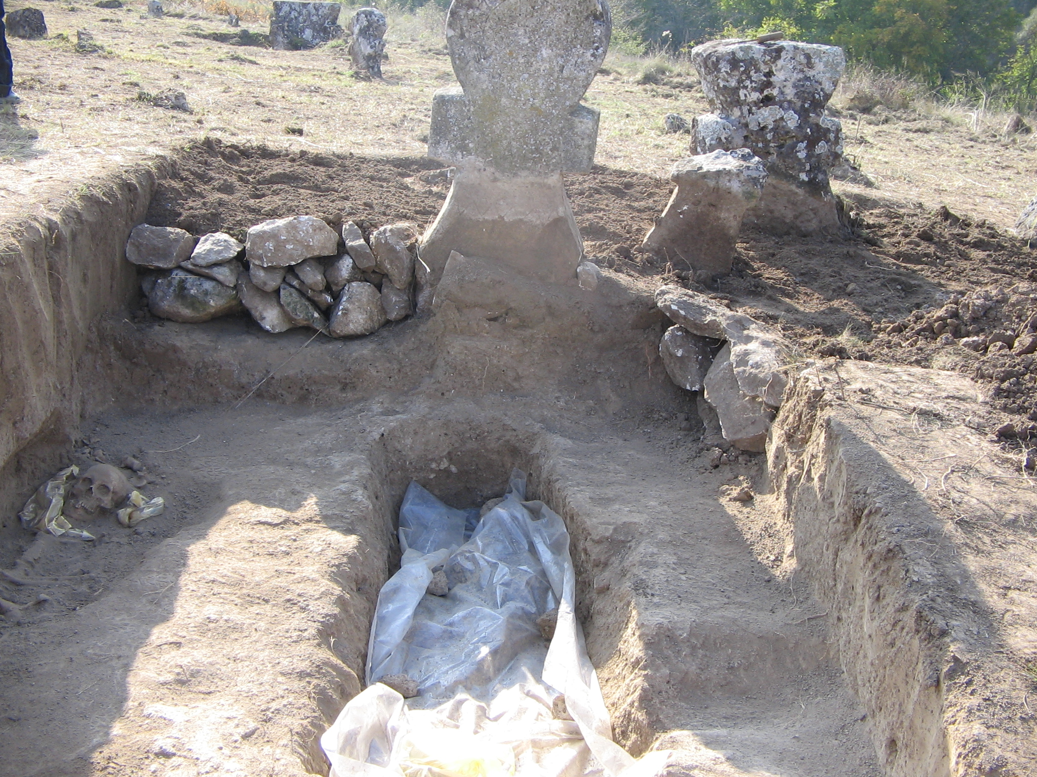 Archeological excavations near village Nisovo, Bulgaria